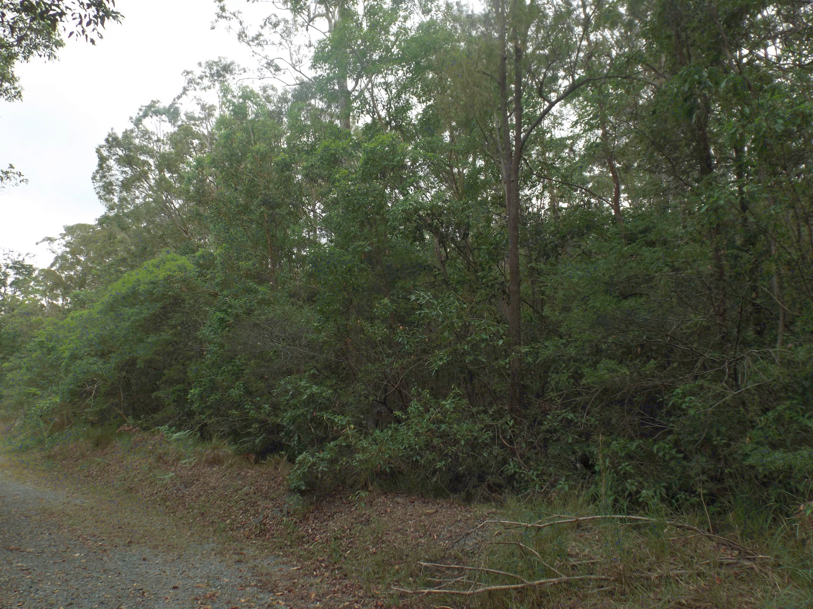 Photo of bush within Nerang National Park on the boundary of Maudsland and Nerang at the Gold Coast, Queensland, Australia. Trail is a cleared break between housing estate and national park taken from Cargellico Street.